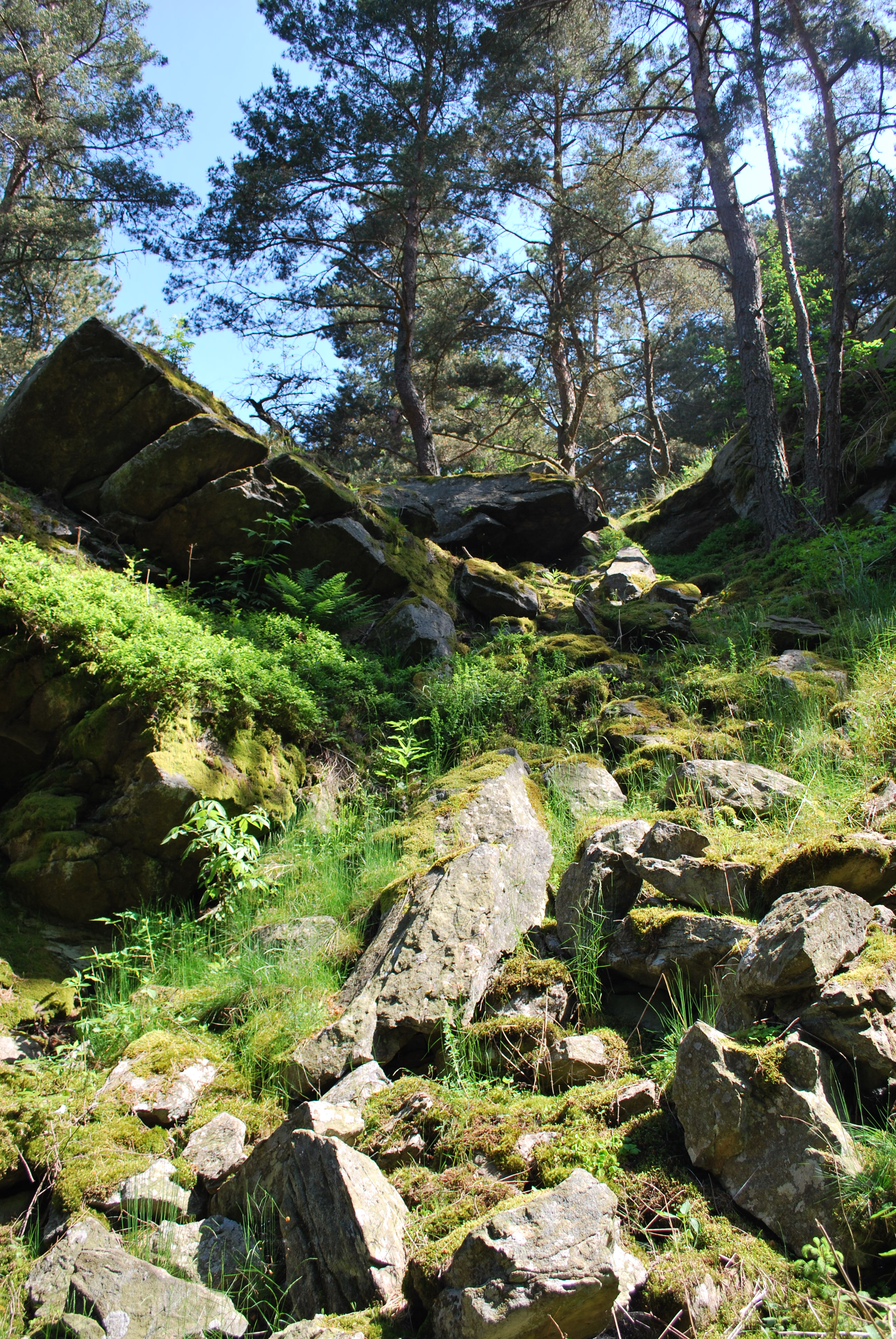 Nature monument "Mrazové srázy u Lazen", near village Strašín in Klatovy District, Czech republic. This photograph was taken within the scope of the 'Czech Municipalities Photographs' grant.